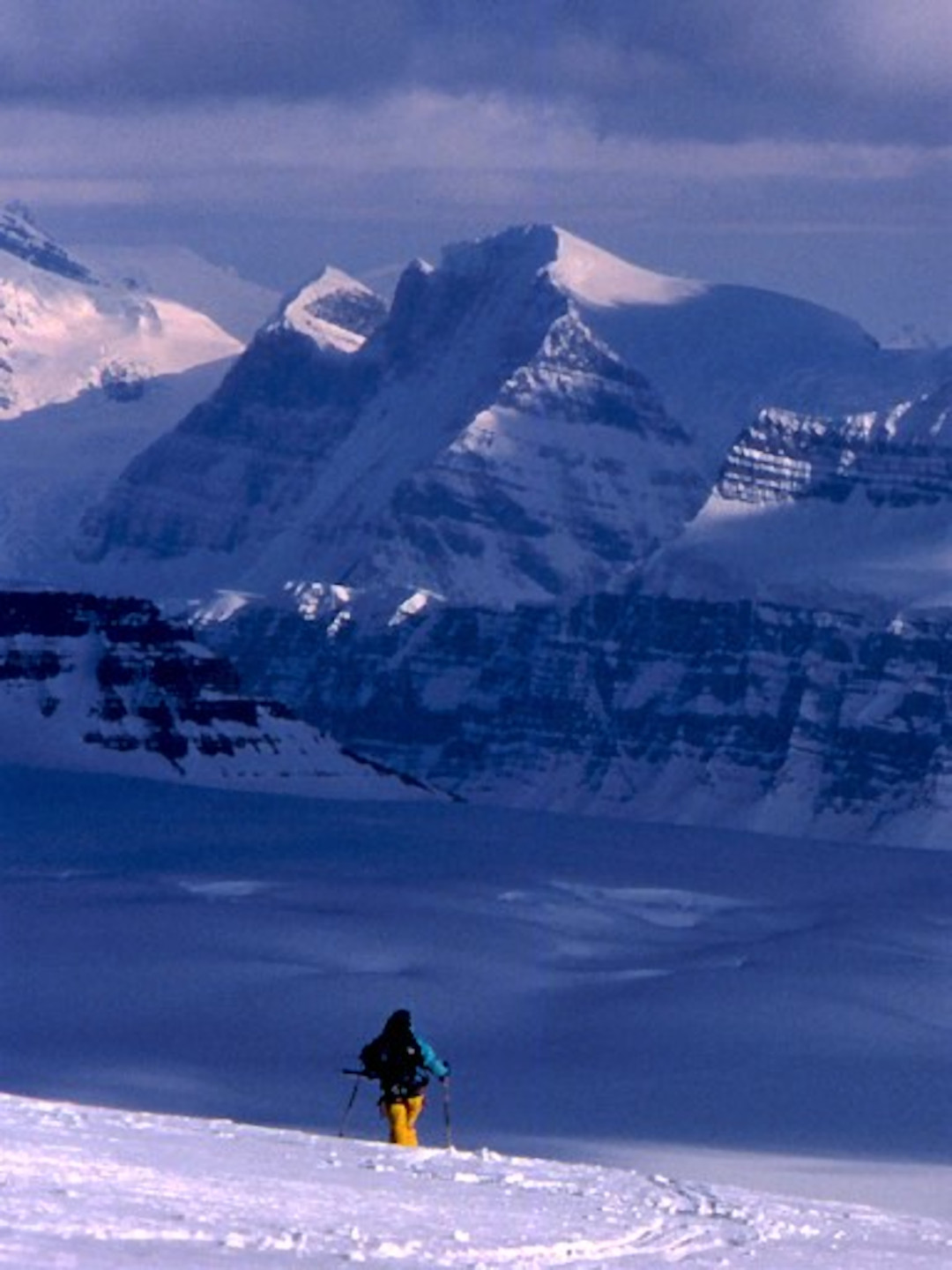 Oppy Mtn., with Farbus Mtn. hiding to its left, as seen from the Columbia Icefield. Doris is cranking turns.